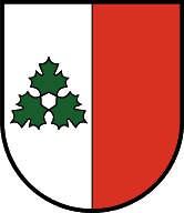 Source: "Fahnen-Gärtner GmbH, Mittersill" Licensing[edit] This image shows a flag, a coat of arms, a seal or some other official insignia. The use of such symbols is restricted in many countries. These restrictions are independent of the copyright status. This image is in the public domain according to Austrian copyright law because it is part of a law, ordinance or official decree issued by an Austrian federal or state authority, or because it is of predominantly official use. (§7 UrhG) To uploader: Please provide where the image was first published and who created it.